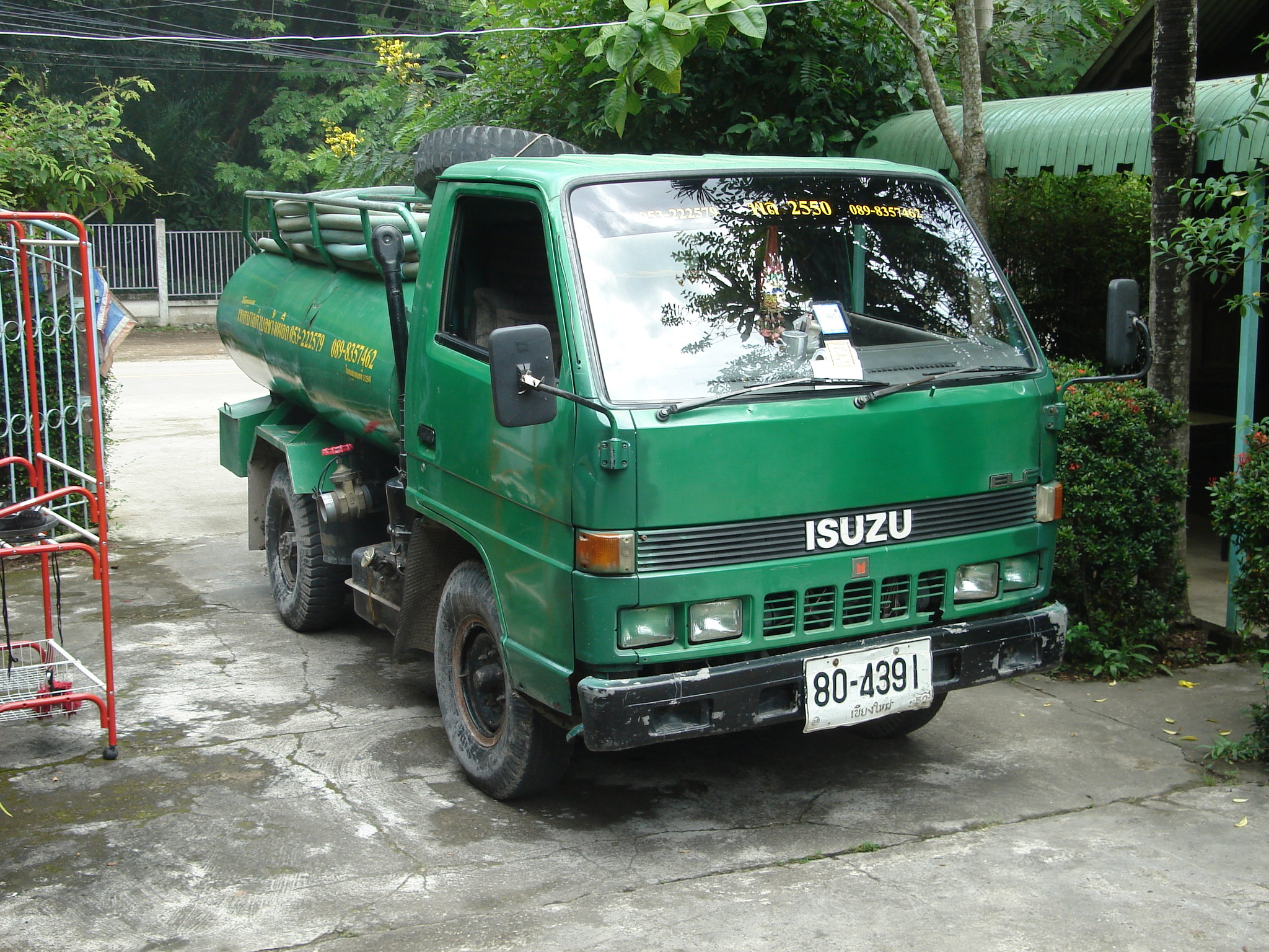 Isuzu Elf (with vacuum tanker for pit emptying (รถสูบส้วม หรือ รถดูดส้วม)) - Chiang Mai, Thailand